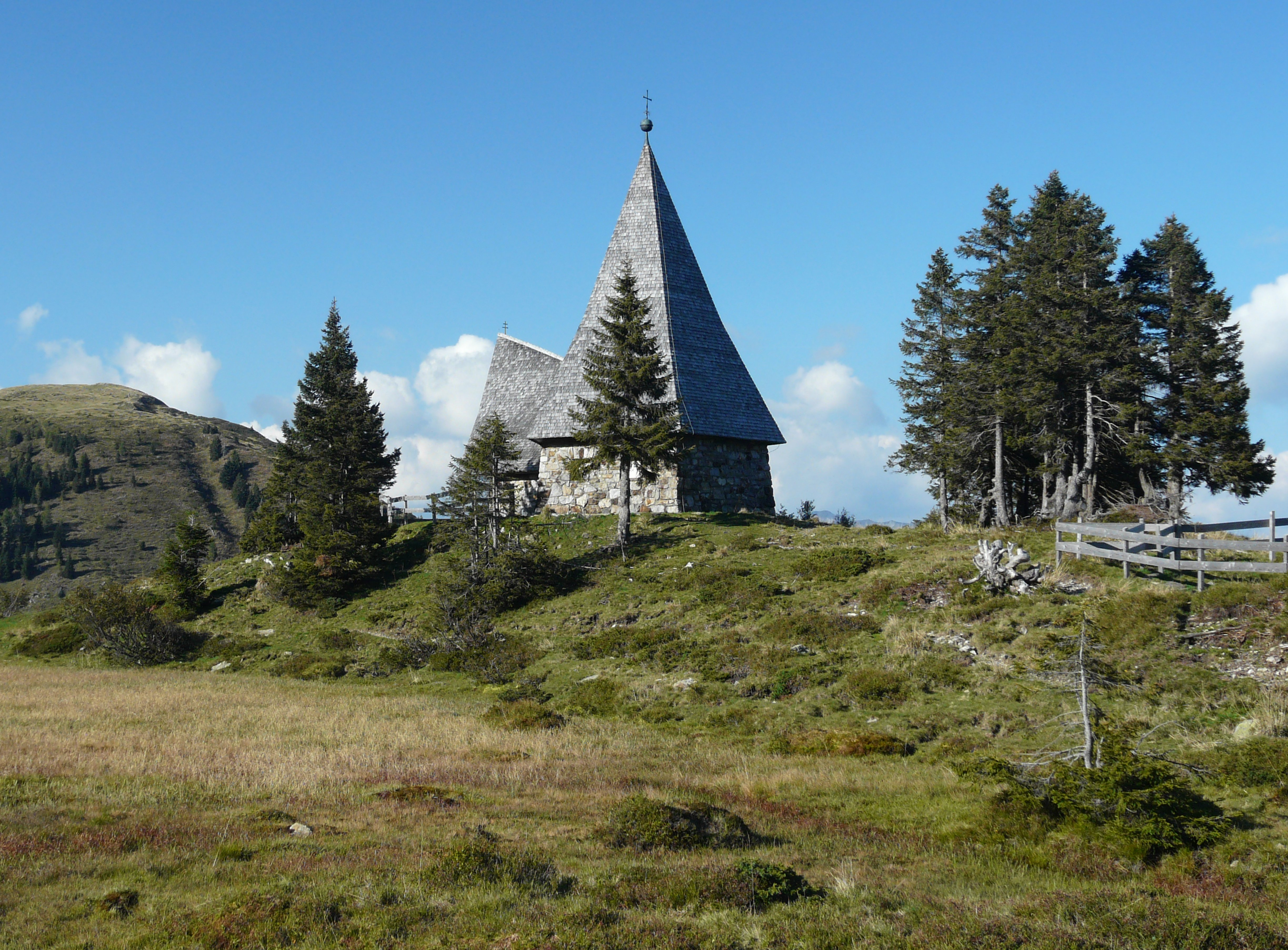 The Zollner Peace Chapel in the Carnic Alps, situated at 1750 meters above sea level.